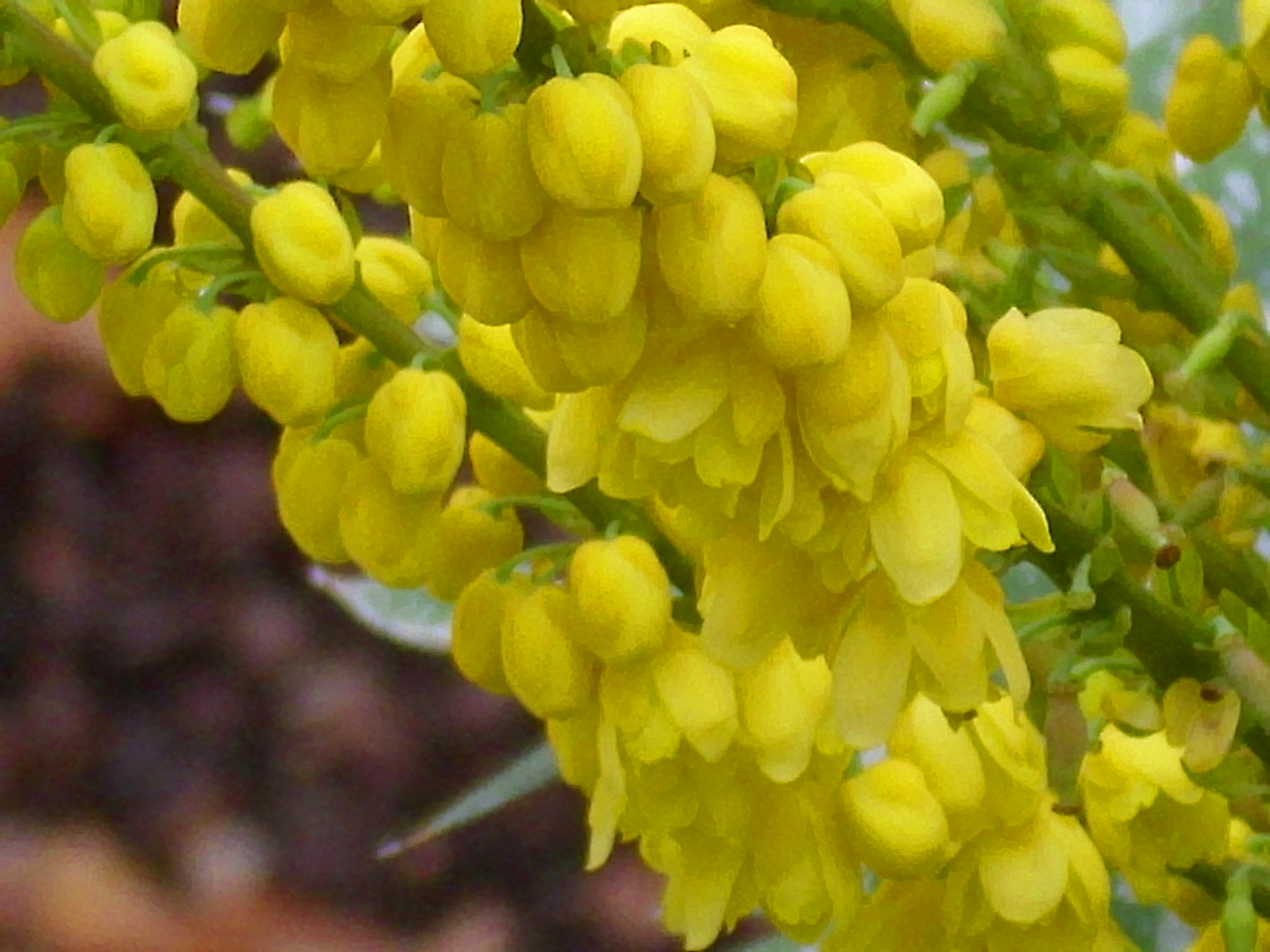 Mahonia x media "Winter sun" close up, Parque Gasset (Ciudad Real), Spain